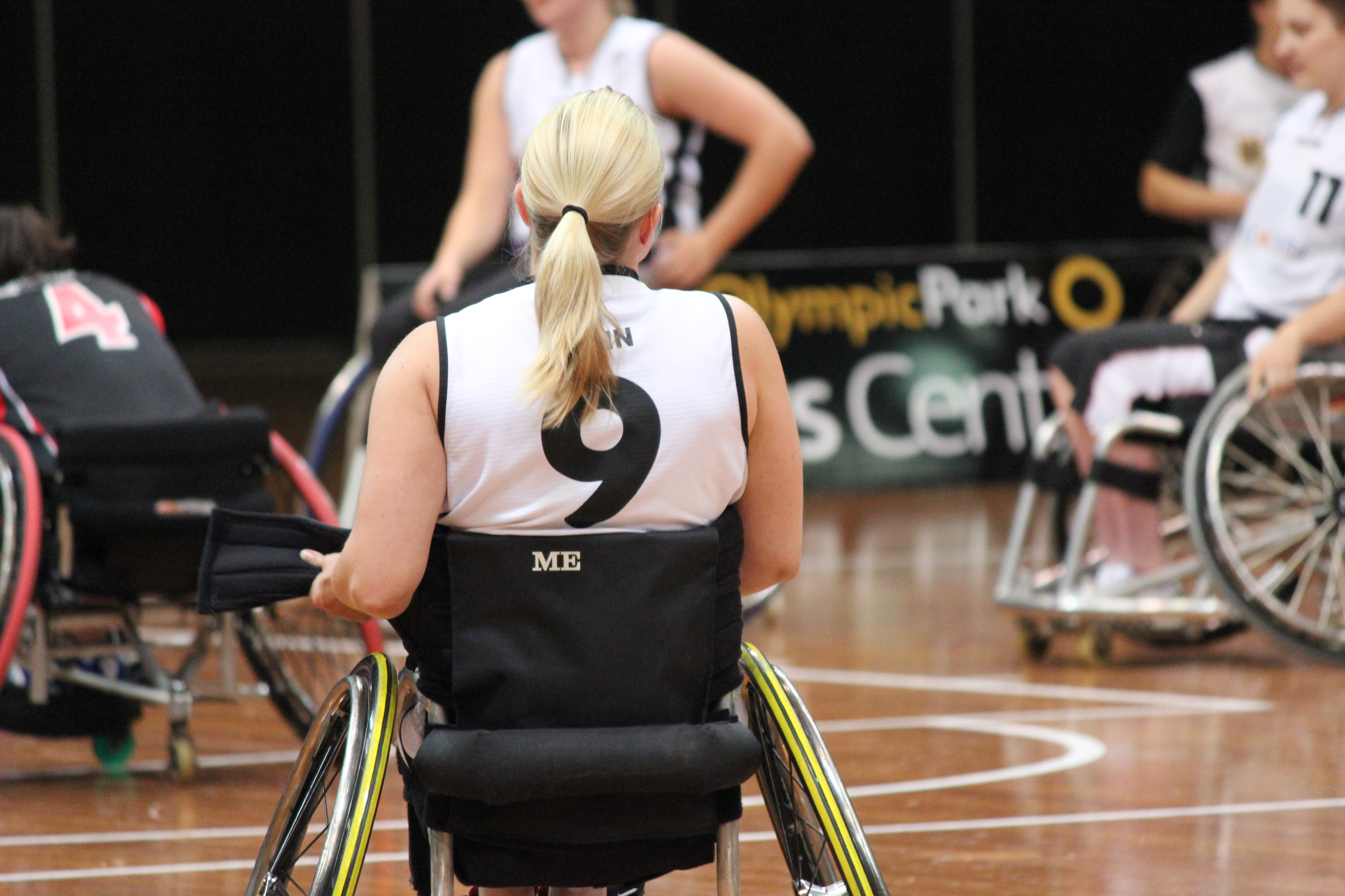 Germany women's national wheelchair basketball team at a basketball competition in July 2012 in Sydney.